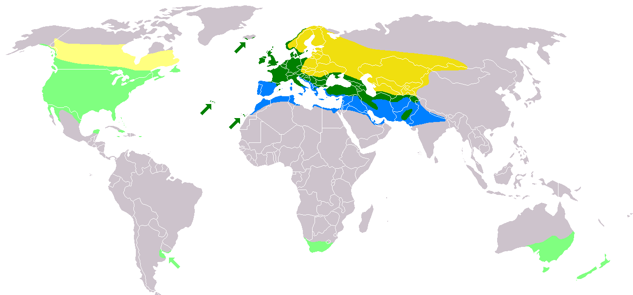 Sturnus vulgaris distribution map. Key: Dark colours: native; yellow, breeding summer visitor; green, resident breeding; blue, winter visitorLight colours: introduced; light yellow breeding summer visitor; light green, resident breeding